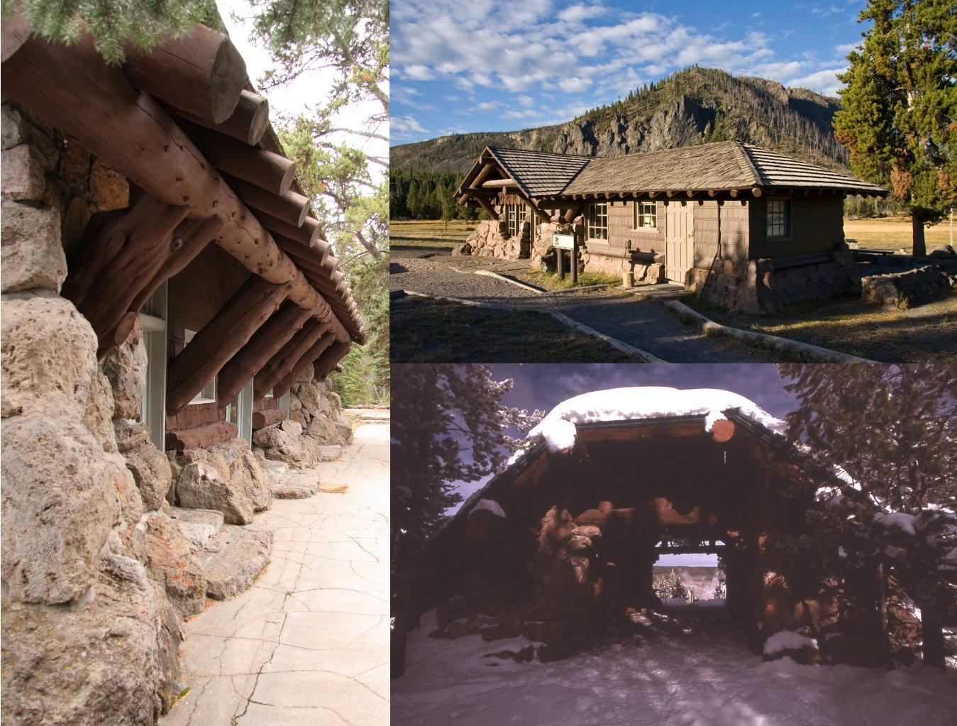 A montage of three images showing the Norris, Madison, and Fishing Bridge Museums, a National Historic Landmark in Yellowstone National Park. Clockwise from left: Fishing Bridge, Madison, Norris.